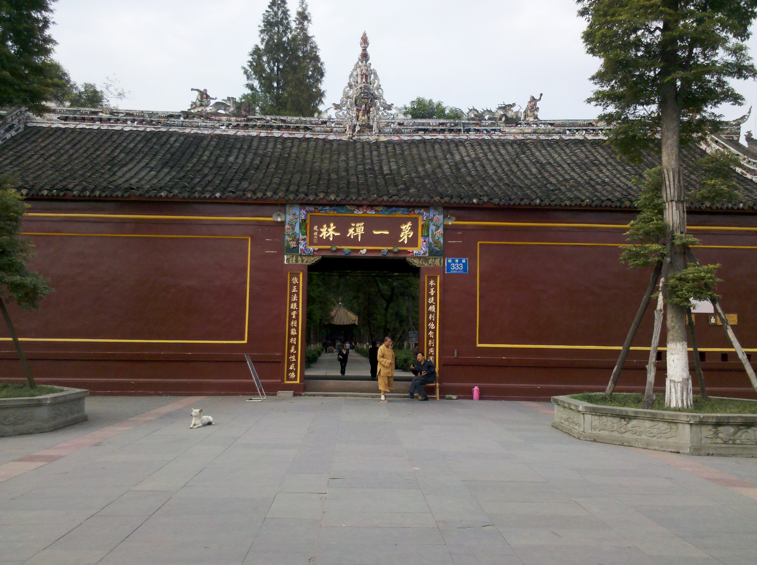 Zhaojue Temple,Jinniu District,Chengdu,Sichuan,China